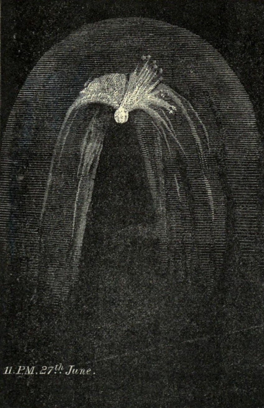 C/1881 K1 taken on 27th June 11pm at Temple Observatory, Rugby, published in Nature, Vol. 24, No. 610, p. 222